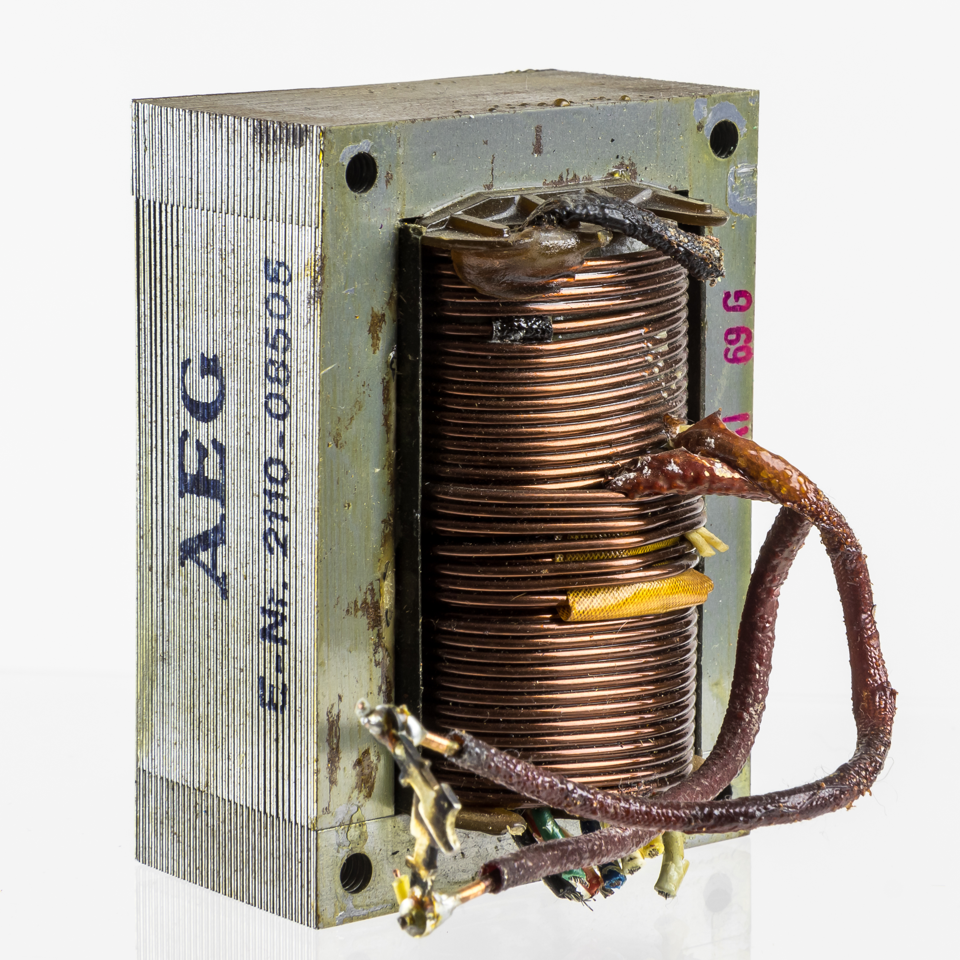 Zeiss Ikon Movilux DS8 - AEG transformer E-Nr. 2110-08505